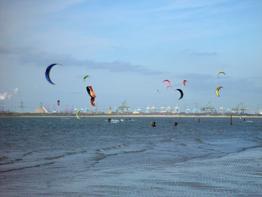 A good day for kitesurfing 25-10-08